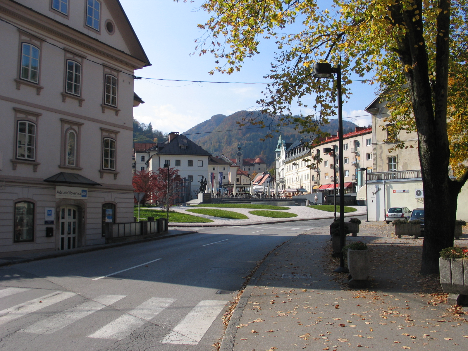 Idrija town square with Castle Gewerkenegg in the background